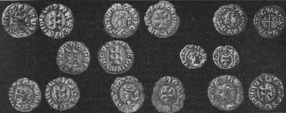 Spanish coin dinerillo